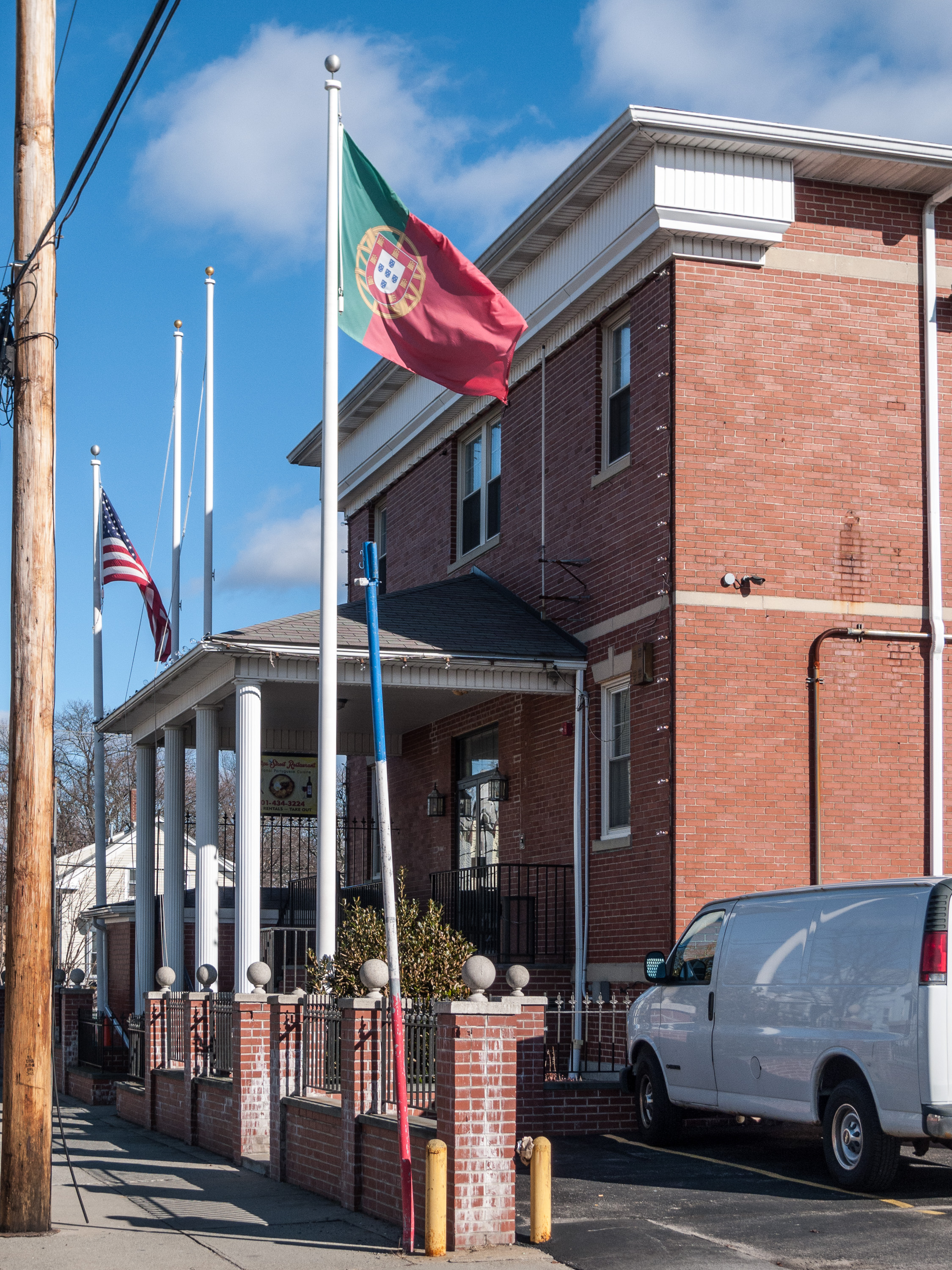 Portuguese flag flies over the Phillips Street Restaurant in East Providence, Rhode Island.